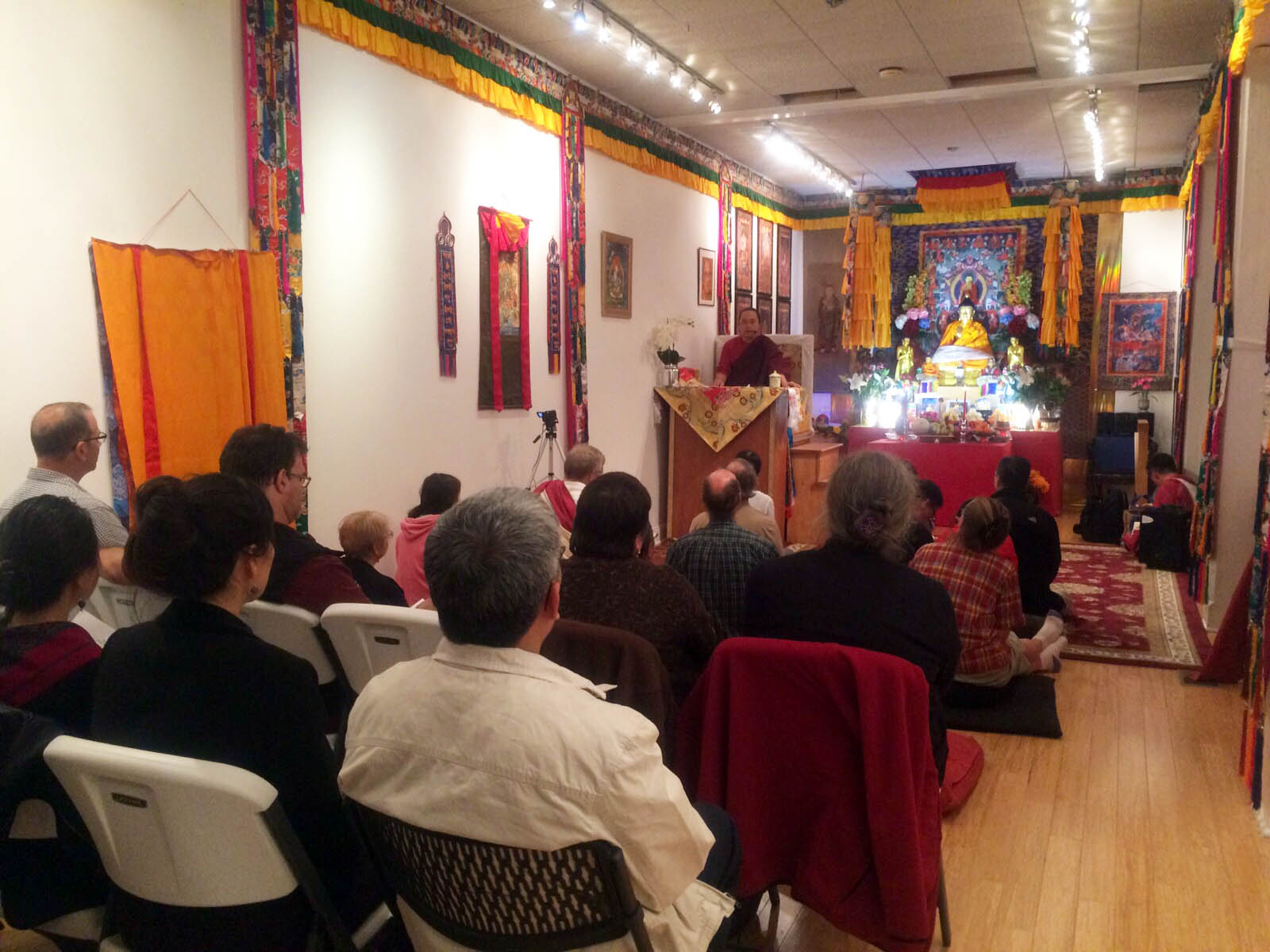 Dharma teaching at Syracuse USA